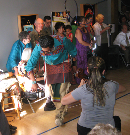 Performance art by Wayne Gaussoin (Picuris Peublo), Museum of Contemporary Native Art, Santa Fe, NM, 2009